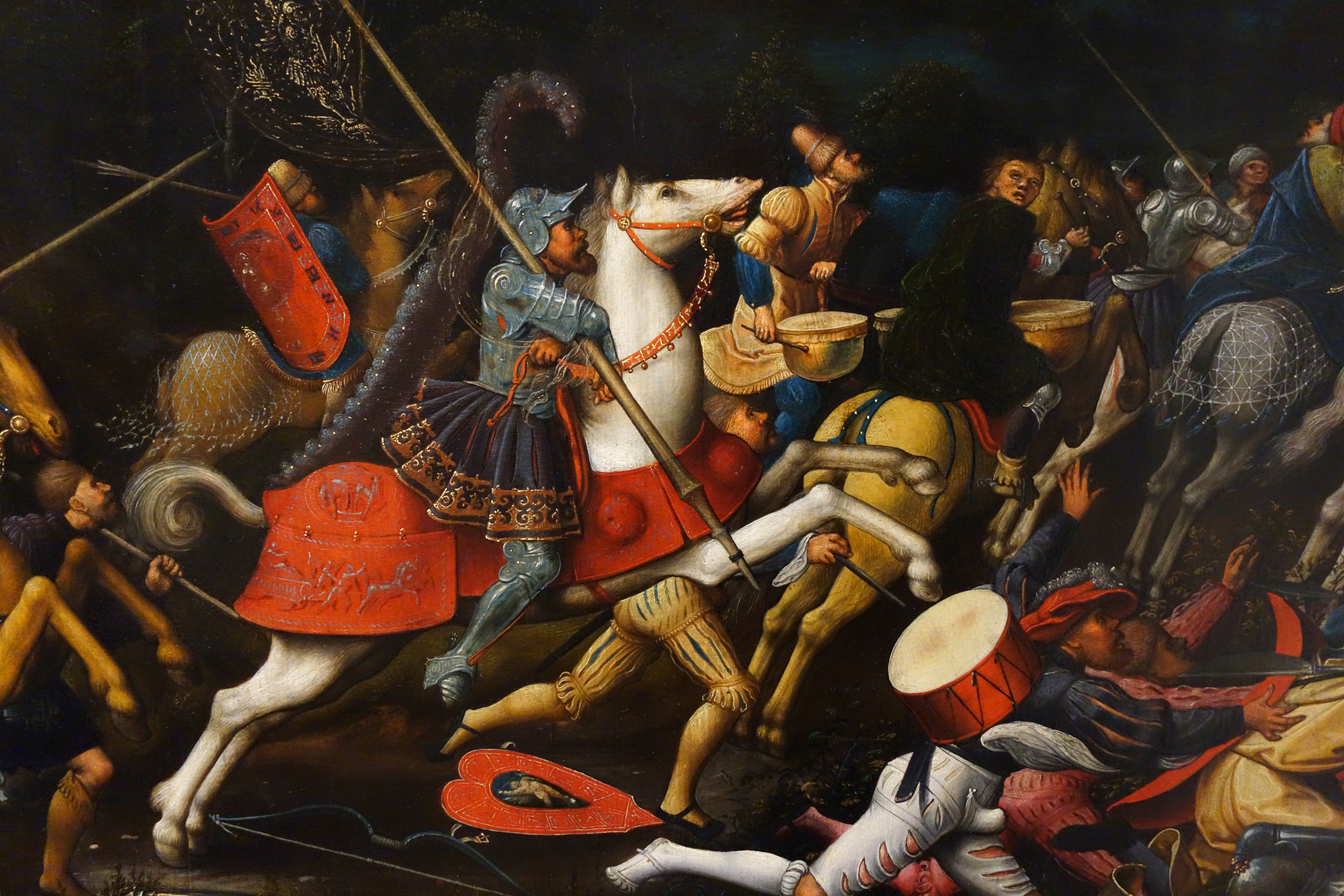 Exhibit in the Museum M - Leuven, Belgium. This artwork is in the public domain because the artist died more than 70 years ago.